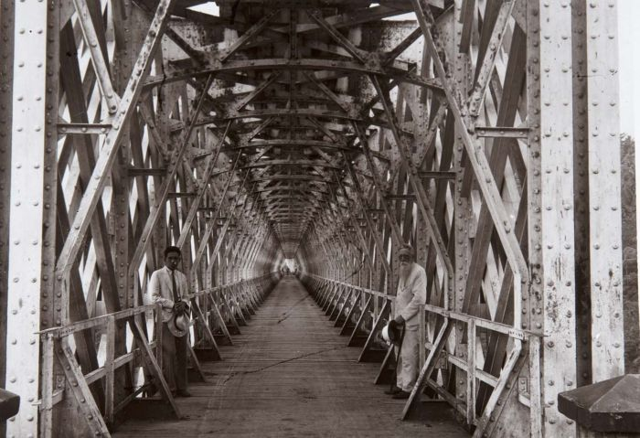 G.F.J. Bley at a passenger bridge, which is part of a railway bridge between Tasikmalaya and Banjar